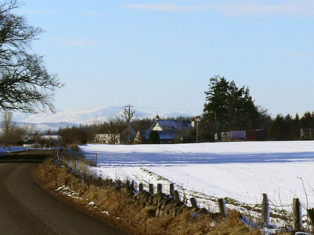 Romantic Tore, near to Tore, Highland, Great Britain. The village of Tore Winter 2008